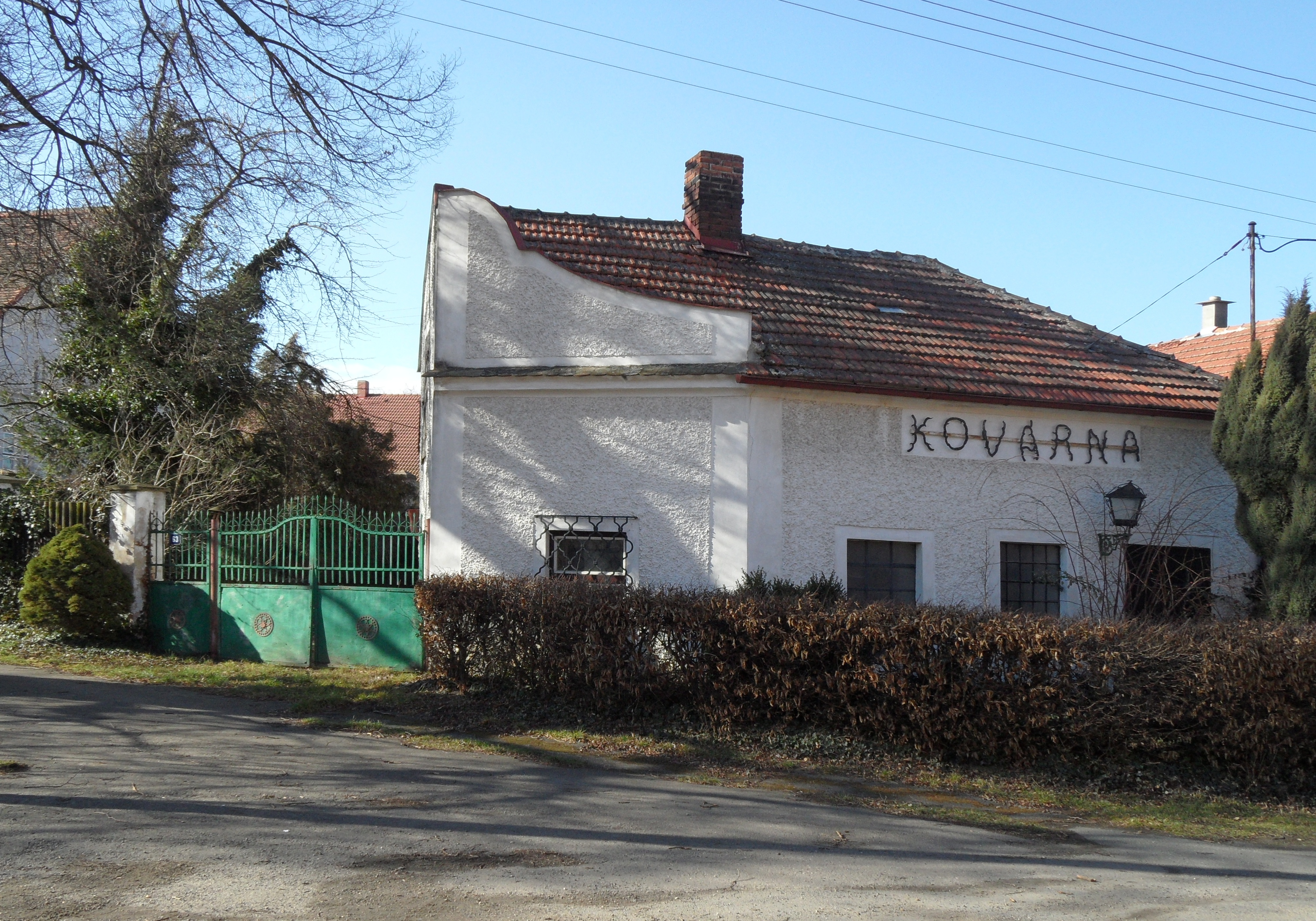 Hostovlice K. Blacksmith's workshop not far from Village Square, Kutná Hora District, the Czech Republic.